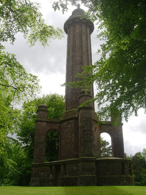 The Panmure Testimonial. The Panmure Testimonial is situated on a hill to the western edge of the Panmure Estate and was a gift to the then laird, the Earl of Panmure. Apparently, during several years of poor harvests in the 1820s the Earl was willing to forgo the annual rent due to him by his tenant farmers. When the situation improved they erected this testimonial (not a memorial or monument, as it is often miscalled) in 1839 as a "thank you" to him. Rumour has it that the idea was his!!